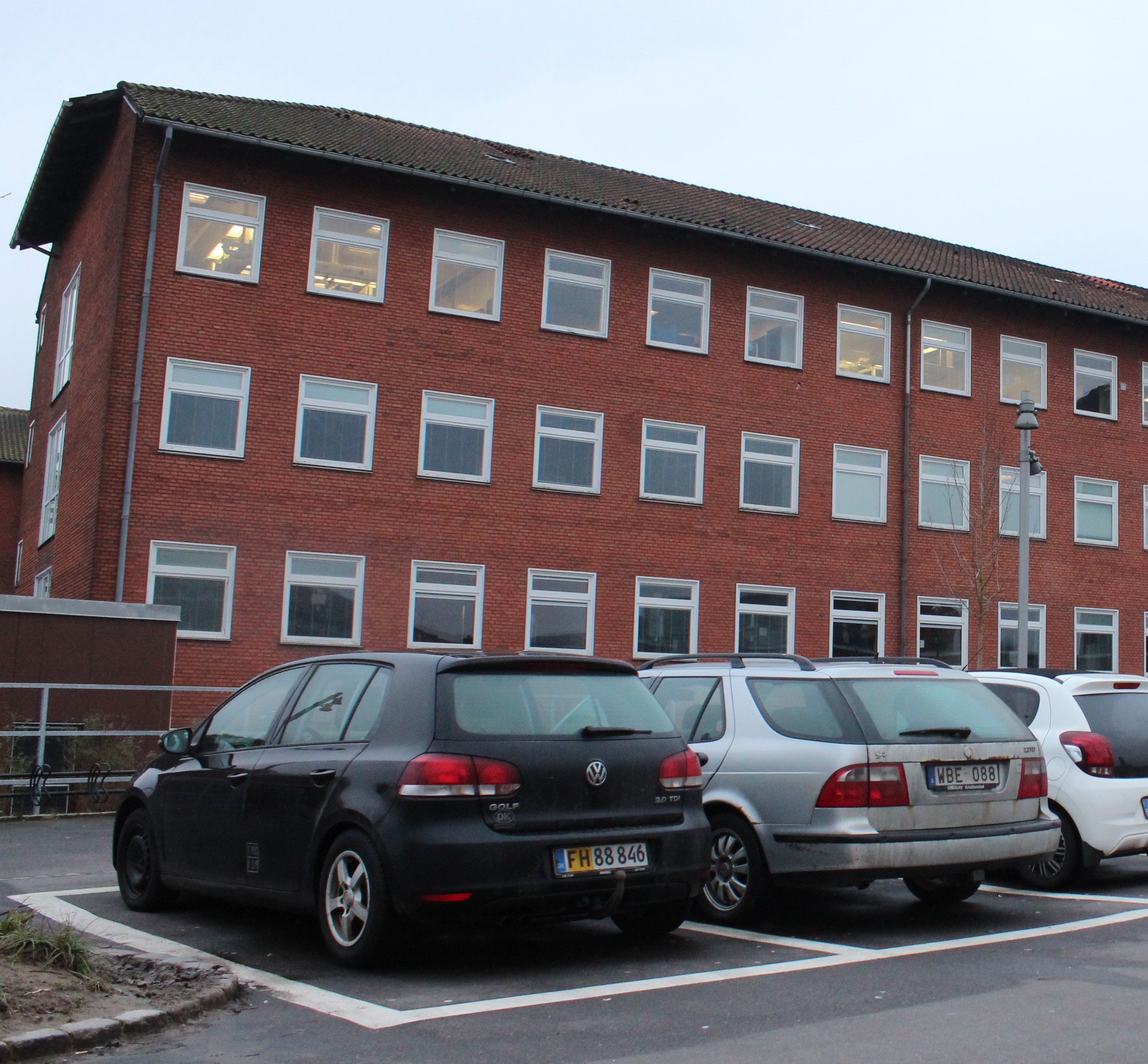 Hospital in Nykøbing Falster